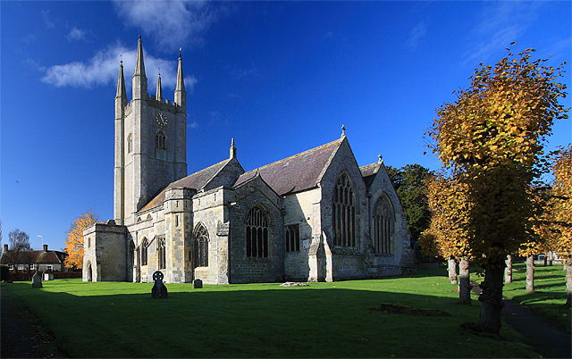 Parish Church of St Michael The Archangel - Mere A beautiful church with substantial remains of the C13 - C15.